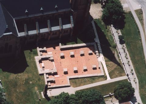 Bátaszék, Hungary, aerialphotography This picture is © copyright Civertan Grafikai Stúdió (Civertan Bt.), 1997-2006.; has been verified that Commons user Civertan is controlled by Civertan Grafikai Stúdió and that it is allowed to relicense content copyrighted to this organization. This work is free and may be used by anyone for any purpose. If you wish to use this content, you do not need to request permission as long as you follow any licensing requirements mentioned on this page.